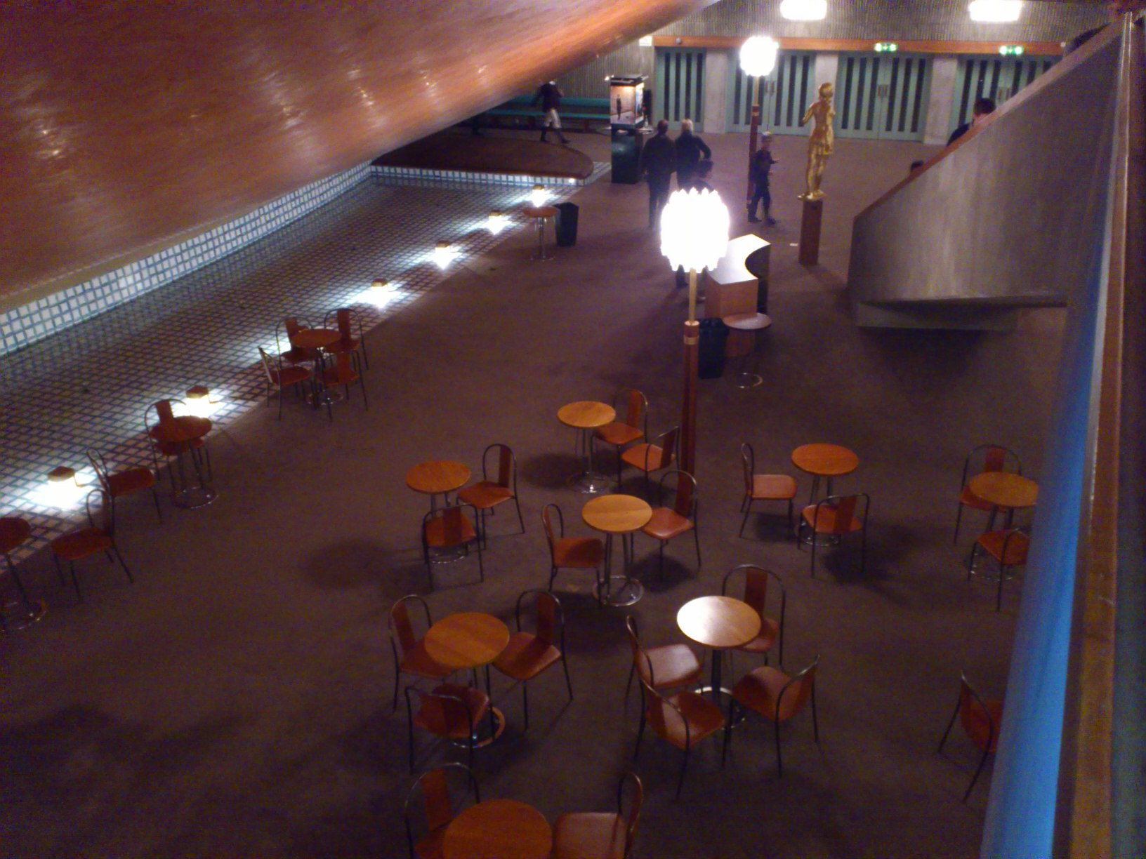 Foajé, Hjalmar Bergman Theatre, Örebro, Sweden.